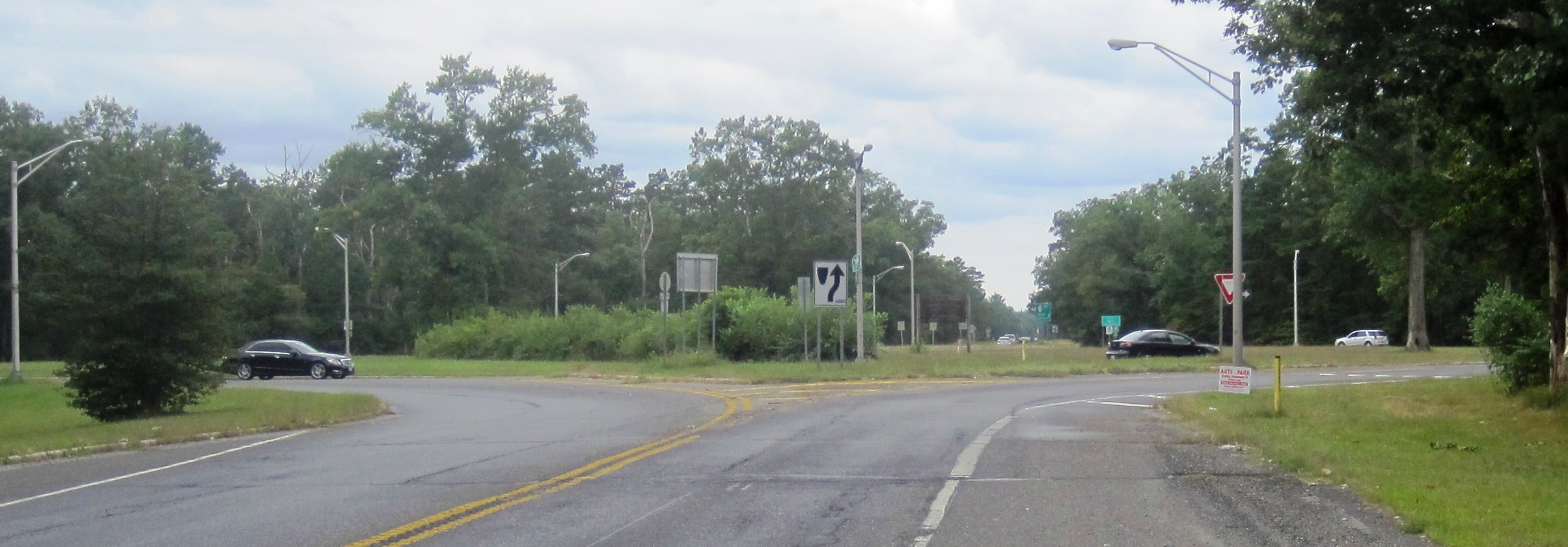 Cropped version of File:Four Mile Circle from Route 70 westbound.jpg